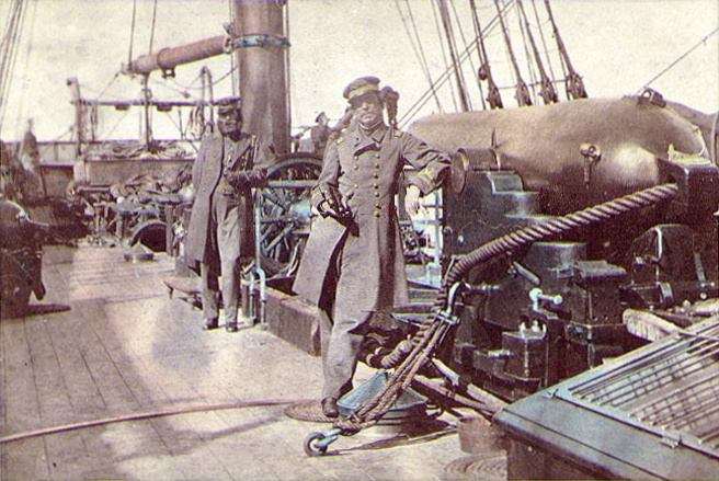 Captain Raphael Semmes, CSS Alabama's commanding officer, standing by his ship's 110-pounder rifled gun during her visit to Capetown in August 1863. His executive officer, First Lieutenant John M. Kell, is in the background, standing by the ship's wheel. The original photograph is lightly color-tinted and mounted on a carte de visite bearing, on its reverse, the mark of E. Burmester, of Cape Town.